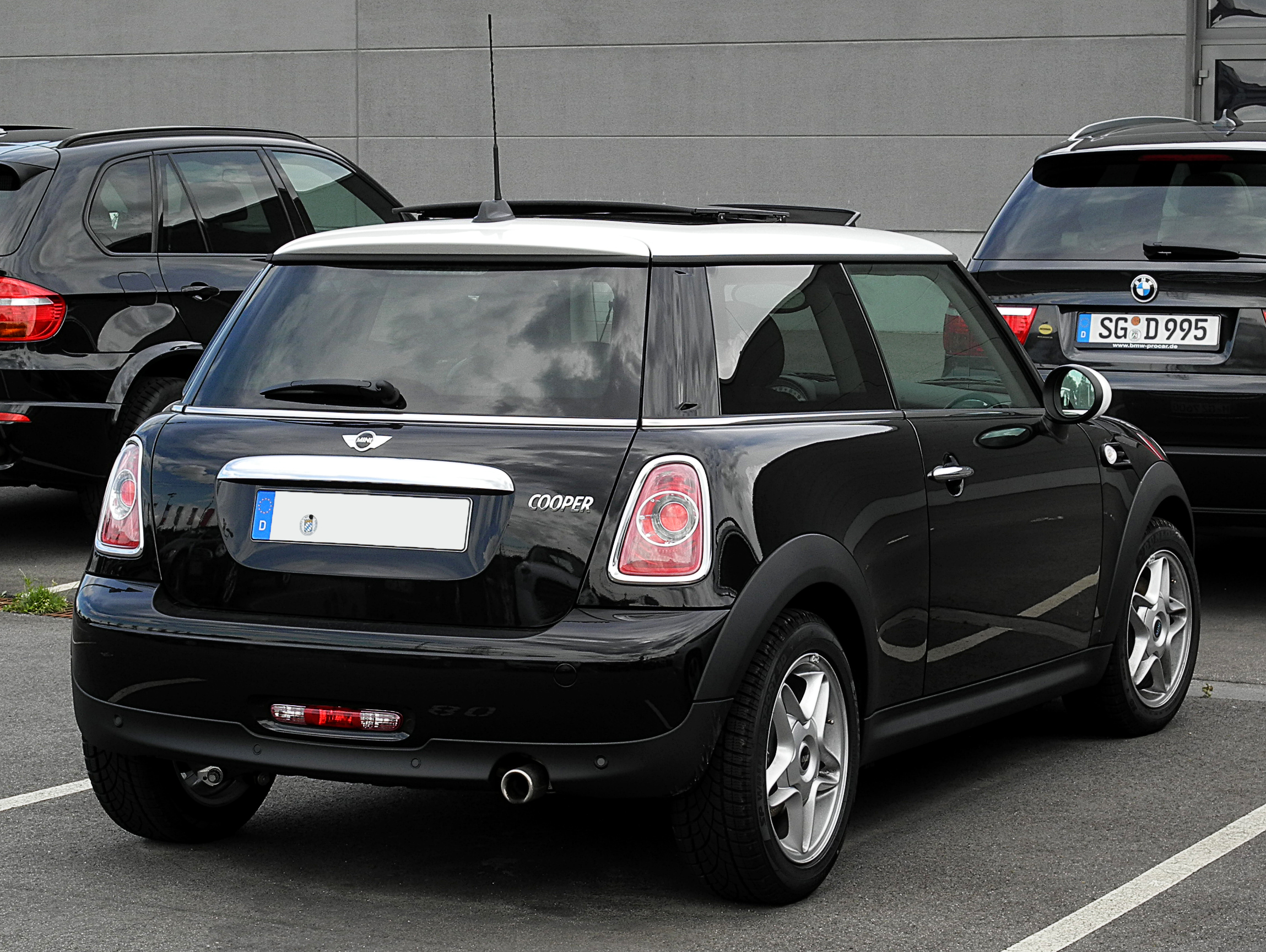 Mini Cooper (R56, Facelift)